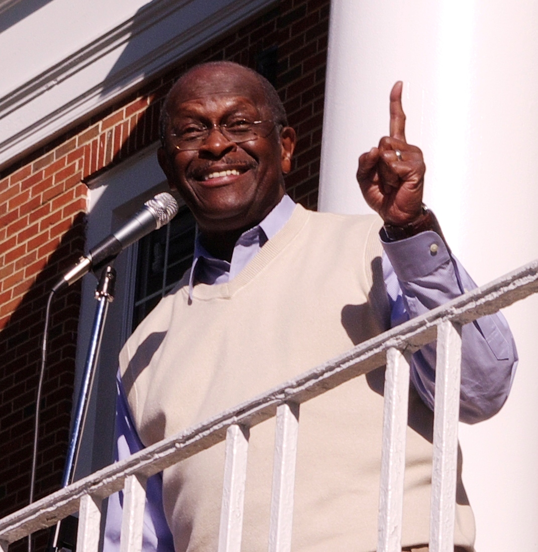 U.S. presidential candidate Herman Cain speaks at a rally at Tennessee Tech University in Cookeville, Tennessee.